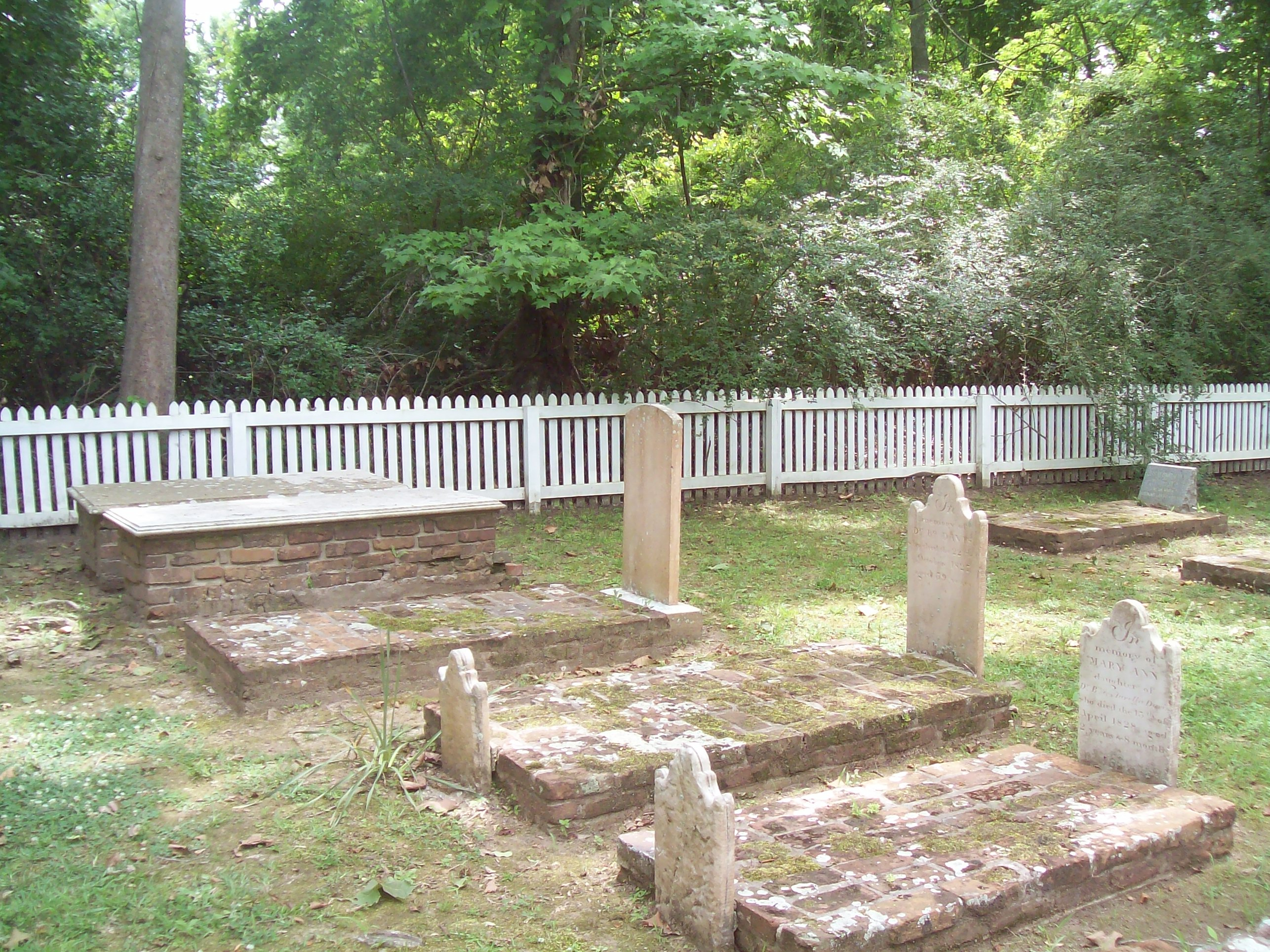 Graves at Locust Grove state historic site near St. Francisville, Louisiana.